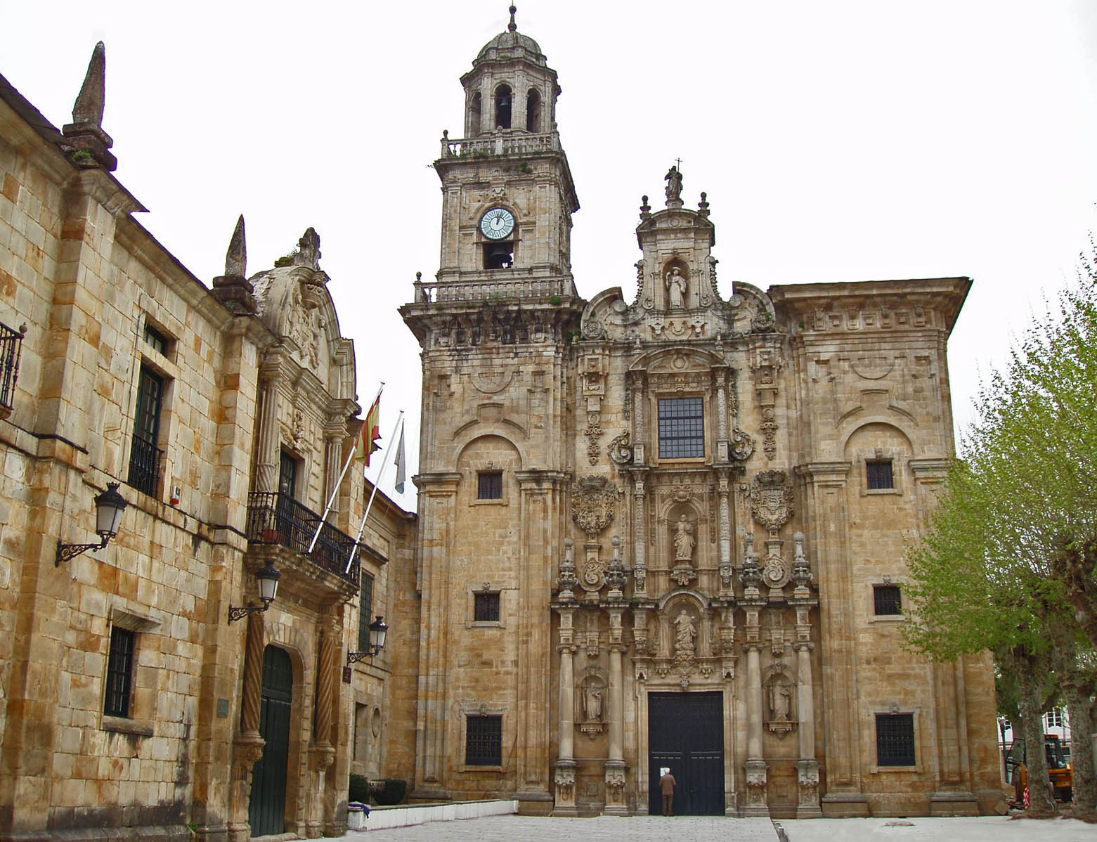 San Salvador monastery and church, in Lorenzana province of Lugo (Spain).